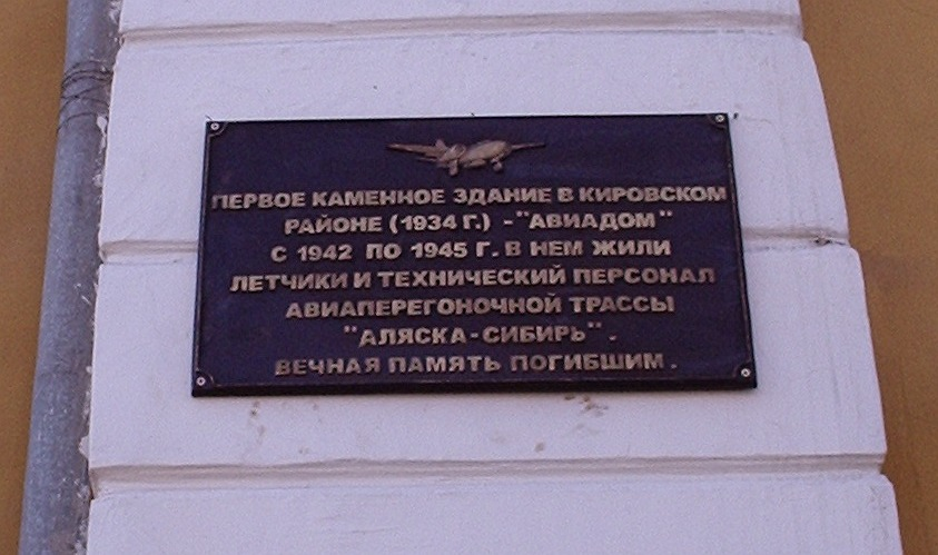 Commemorative plaque in Krasnoyarsk at Vavilova st, 35, by Alsib